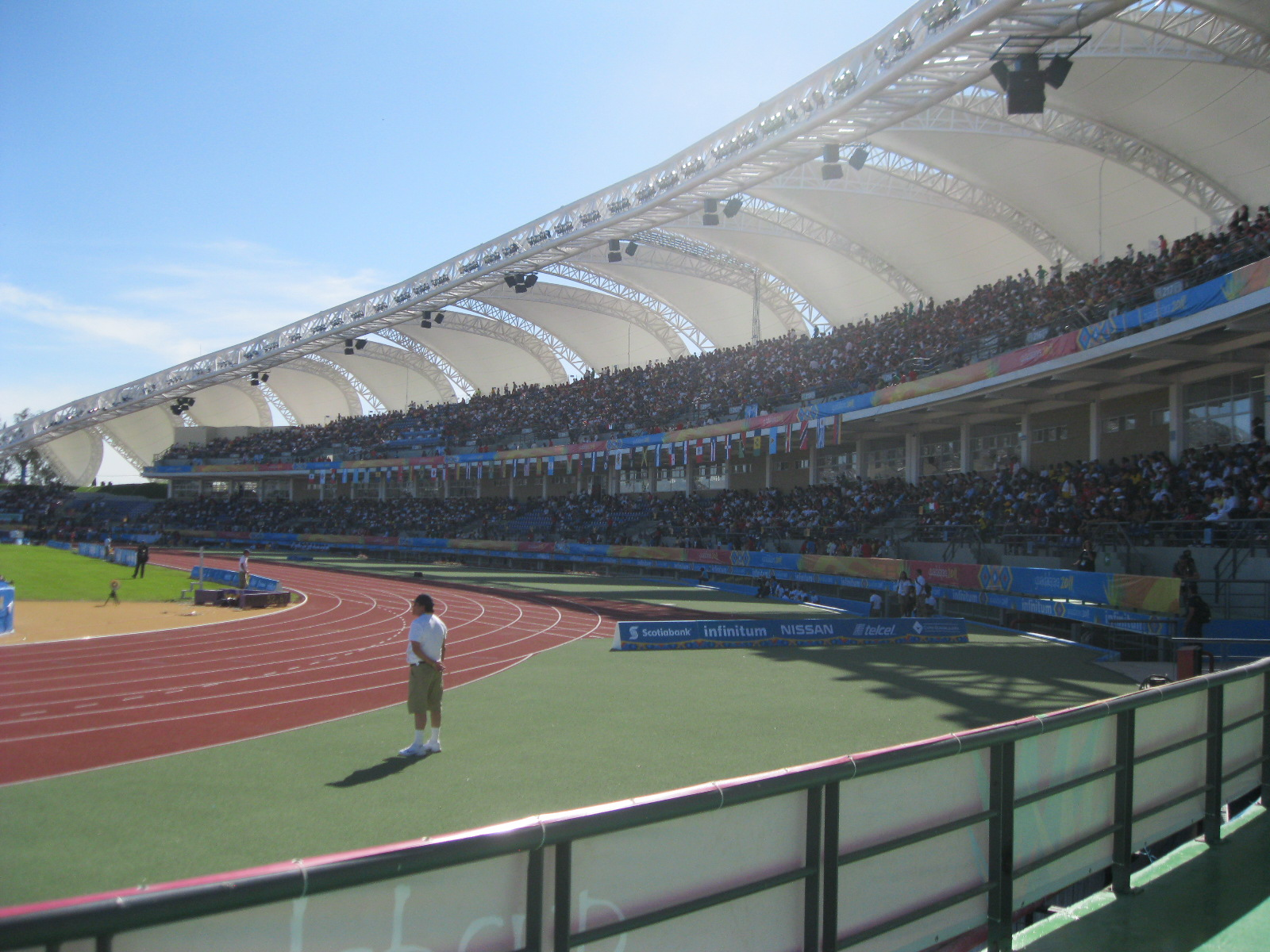 Telmex Athletics Estadium during PanAm Games Guadalajara 2011